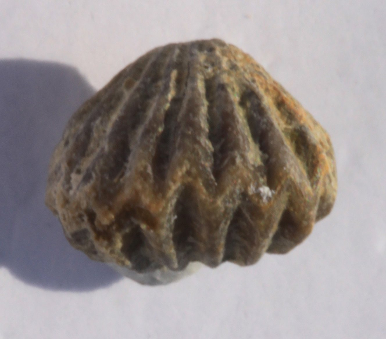 A Hustedia brentwoodensis lampshell, Order Athyridida, Family Neoretziidae, 8mm along the axis, view of the opening, collected at the Bloyd Formation near Braggs, Oklahoma, USA, from the Lower Pennsylvanian (Bashkirian)